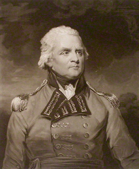 Thomas Grenville (1755-1846)